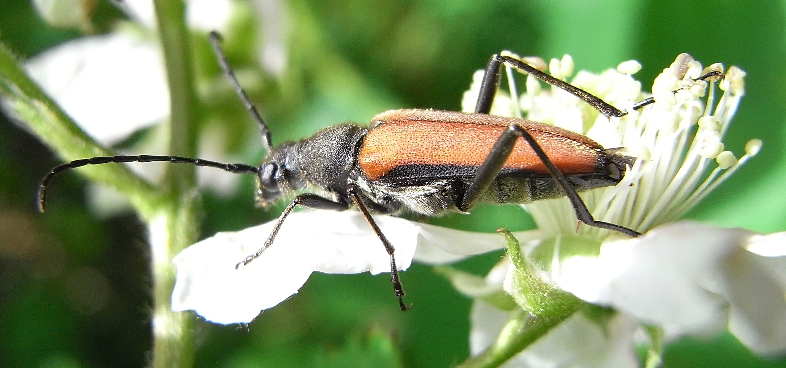 Anastrangalia dubia from Hungary, Zemplen-hills at 2010-06-15Ricoh R8